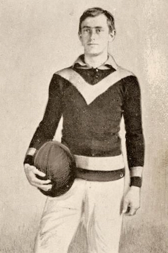 Photograph of Edgar Kneen from the 1910 Weekly Times Victorian Footballer Postcard Series